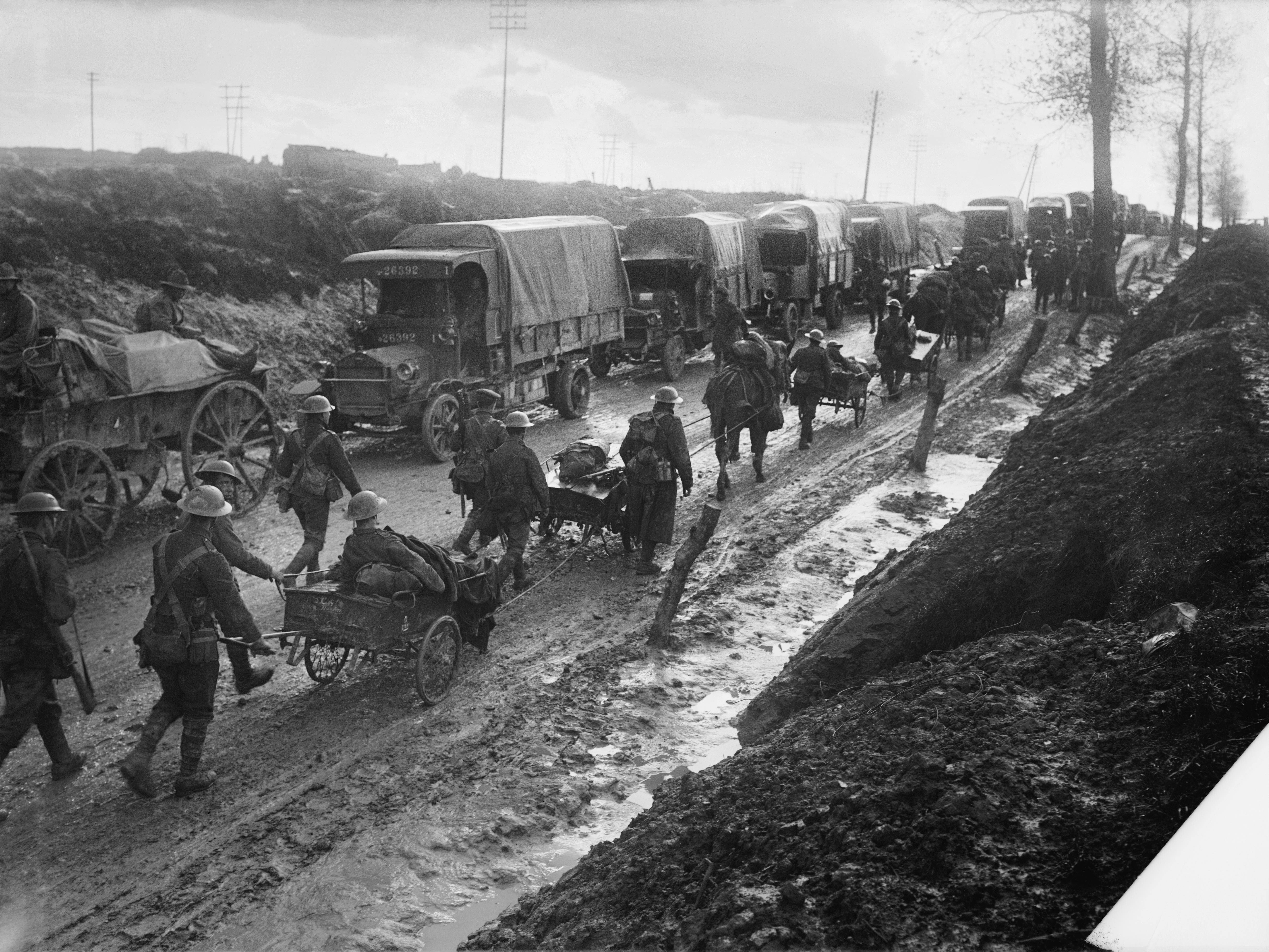 The Battle of the Somme, July-november 1916 Men of the Middlesex Regiment with horse-drawn Lewis gun carts returning from the trenches near Albert, September 1916. A line of supply lorries can be seen in the bacground.